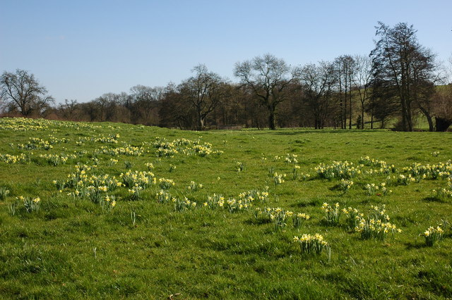 Wild daffodils beside the river Leadon